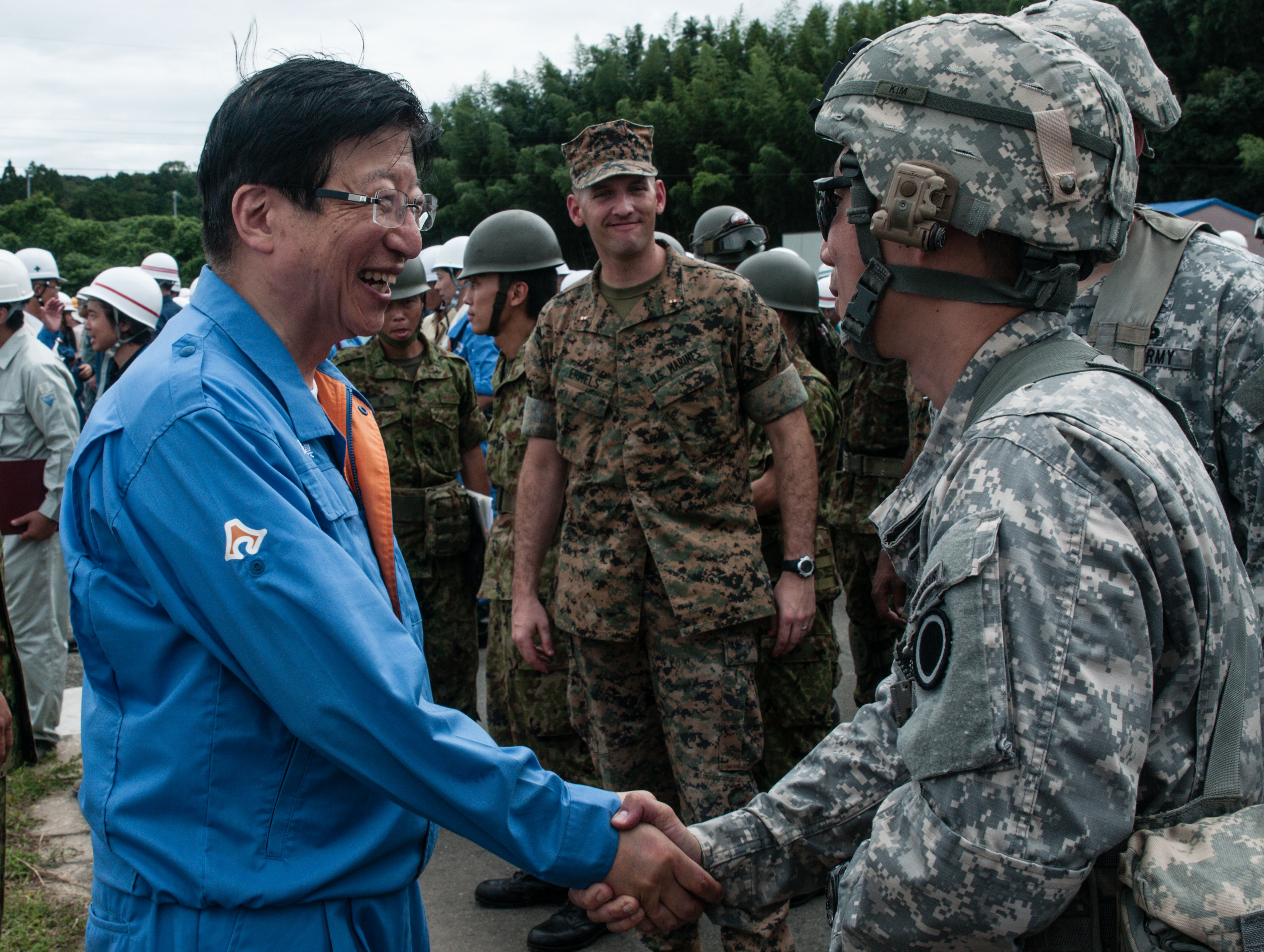 Heita Kawakatsu, Governor of Shizuoka Prefecture, appreciated Army soldiers who participated in Shizuoka Prefecture and Kakegawa City Disaster Drill in Kakegawa City, Shizuoka Prefecture on September 4, 2016.